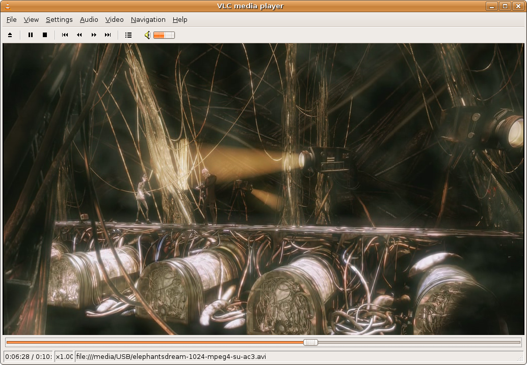 Screenshot of VLC media player 0.8.6, the video being played is Elephants Dream.